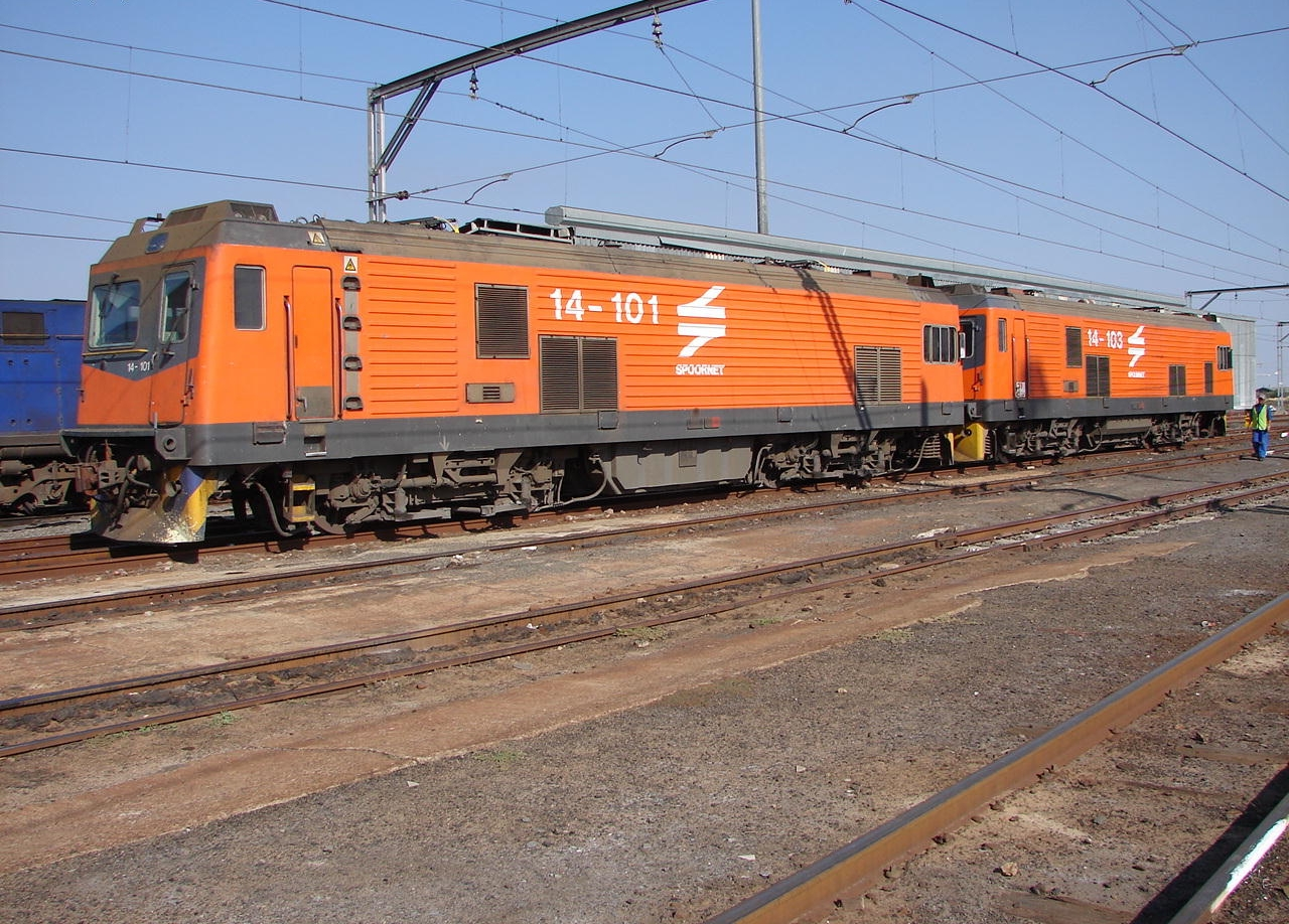 Spoornet Class 14E1 14-101 Builder's Number: HST 16876-1-9/1994 Location: Beaufort West, Western Cape